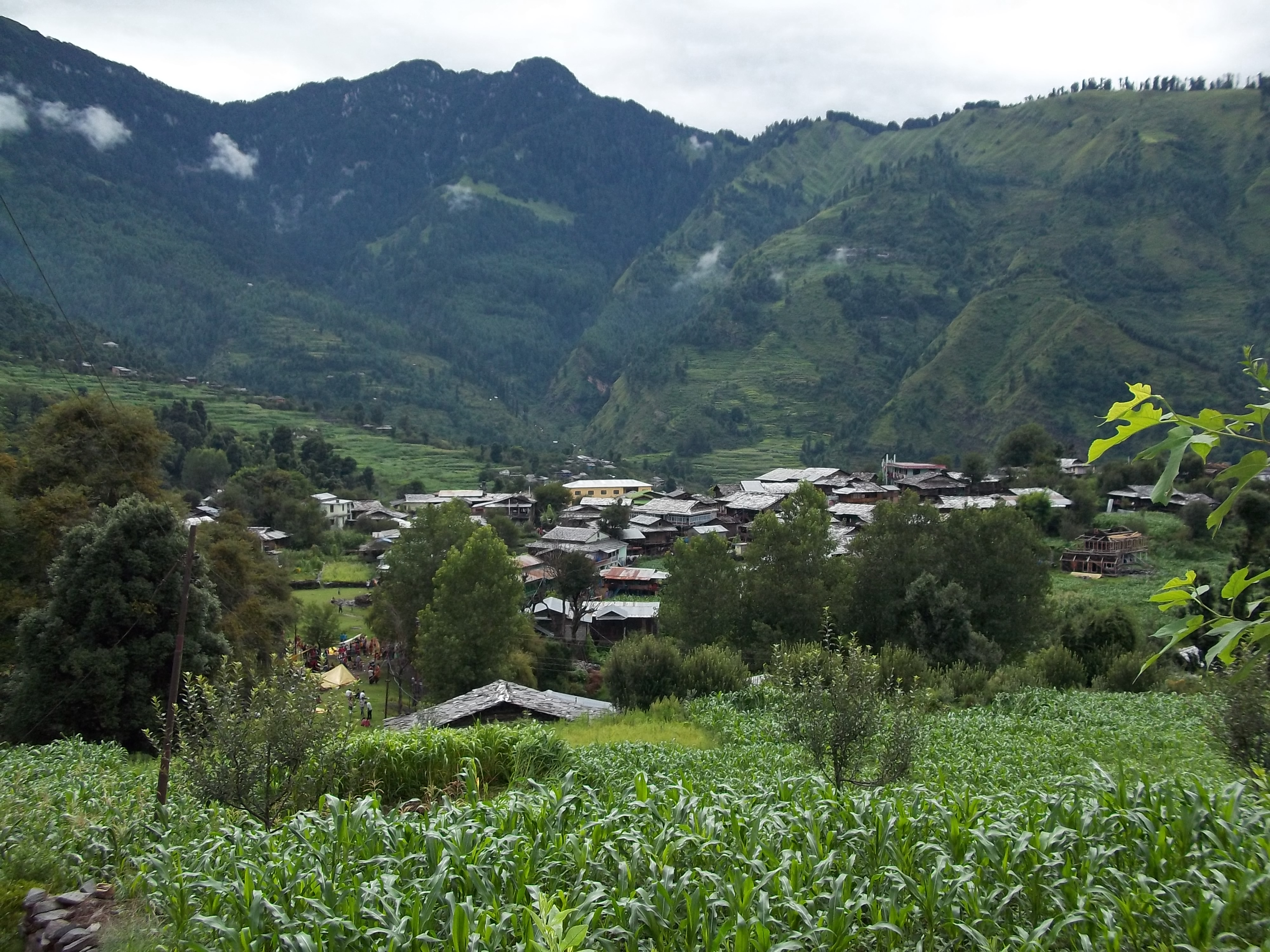 Lug valley Kullu (H.P.)